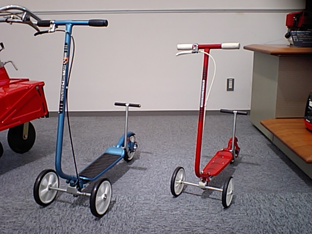 The "Roller Through Gogo" aka "Kick'N Go" at the Honda collection hall, Motegi, Japan.